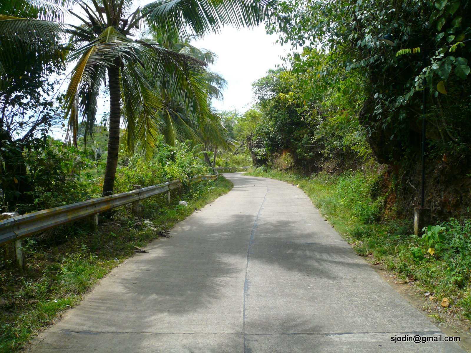 Concrete road on Guimaras island